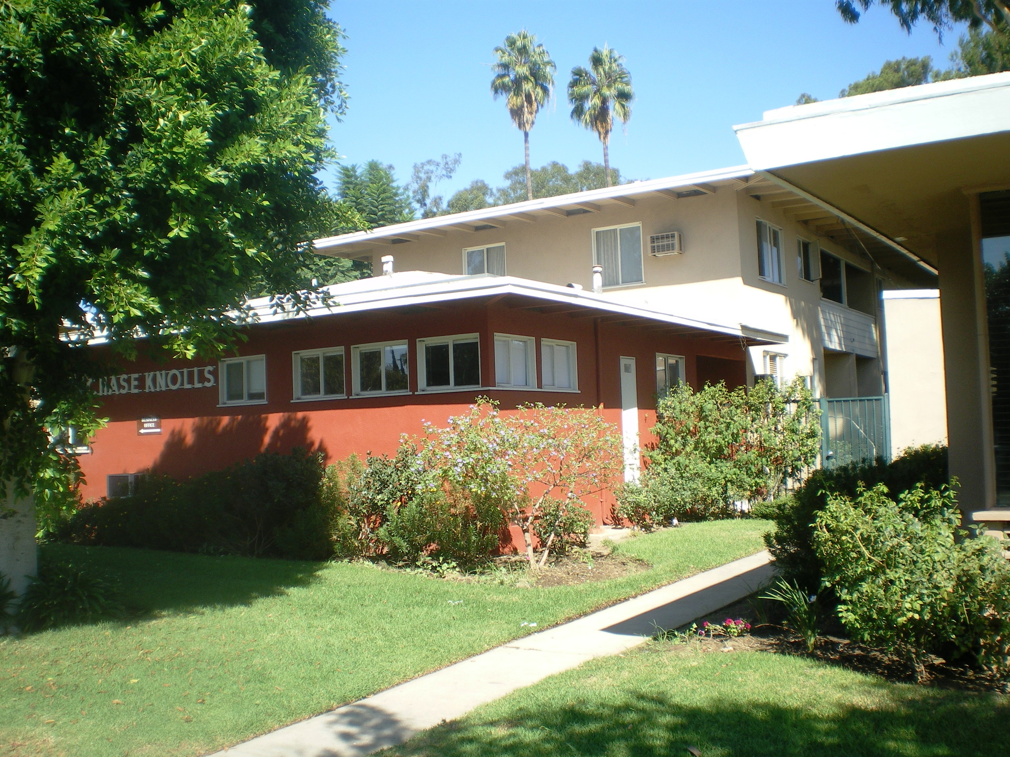 Chase Knolls Garden Apartments, late 1940s modernist style architecture and gardens in the southern San Fernando Valley. A Los Angeles Historic-Cultural Monument located at 13401 W. Riverside Drive, Sherman Oaks, Los Angeles, California (HCM #683).